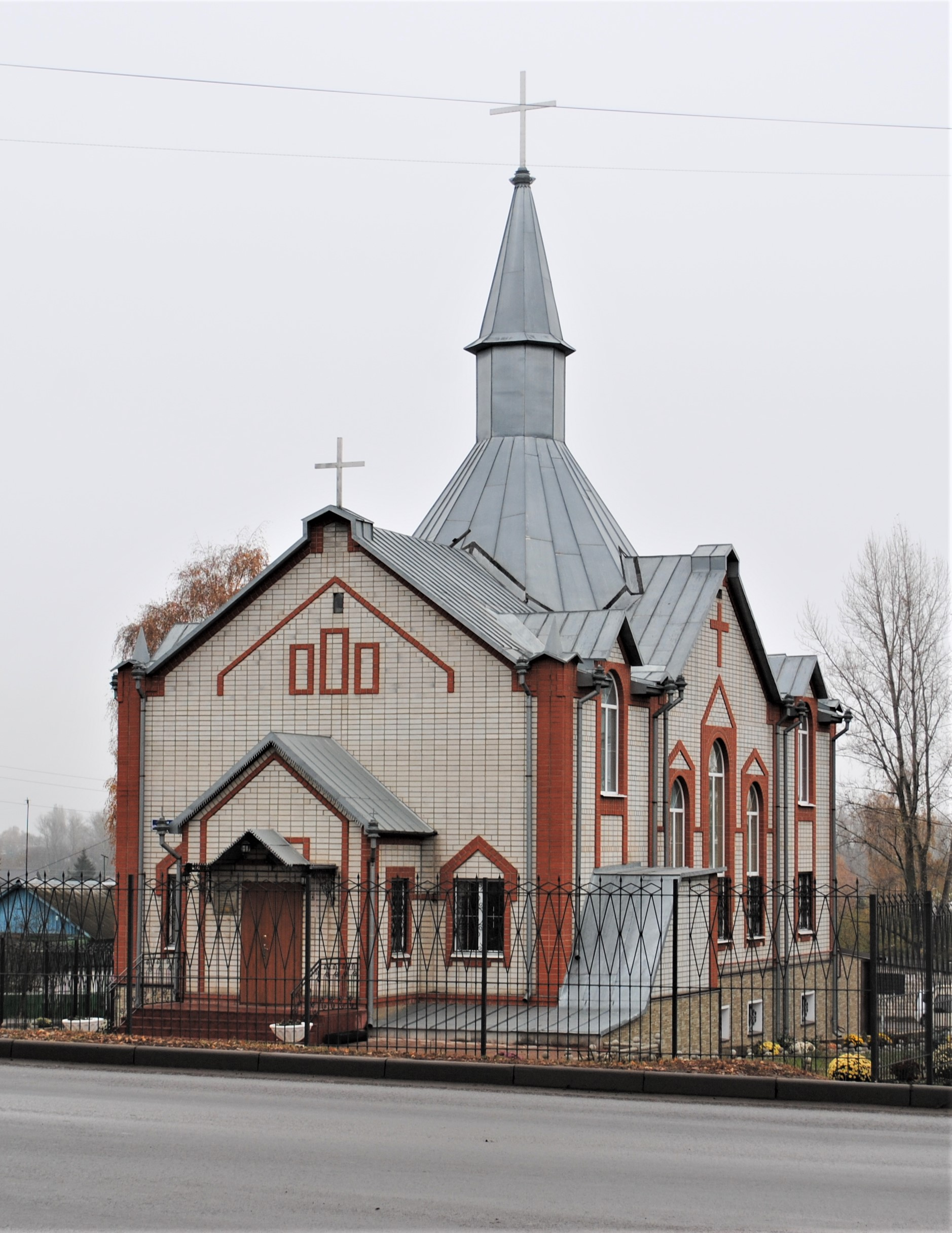 Churche in Livny